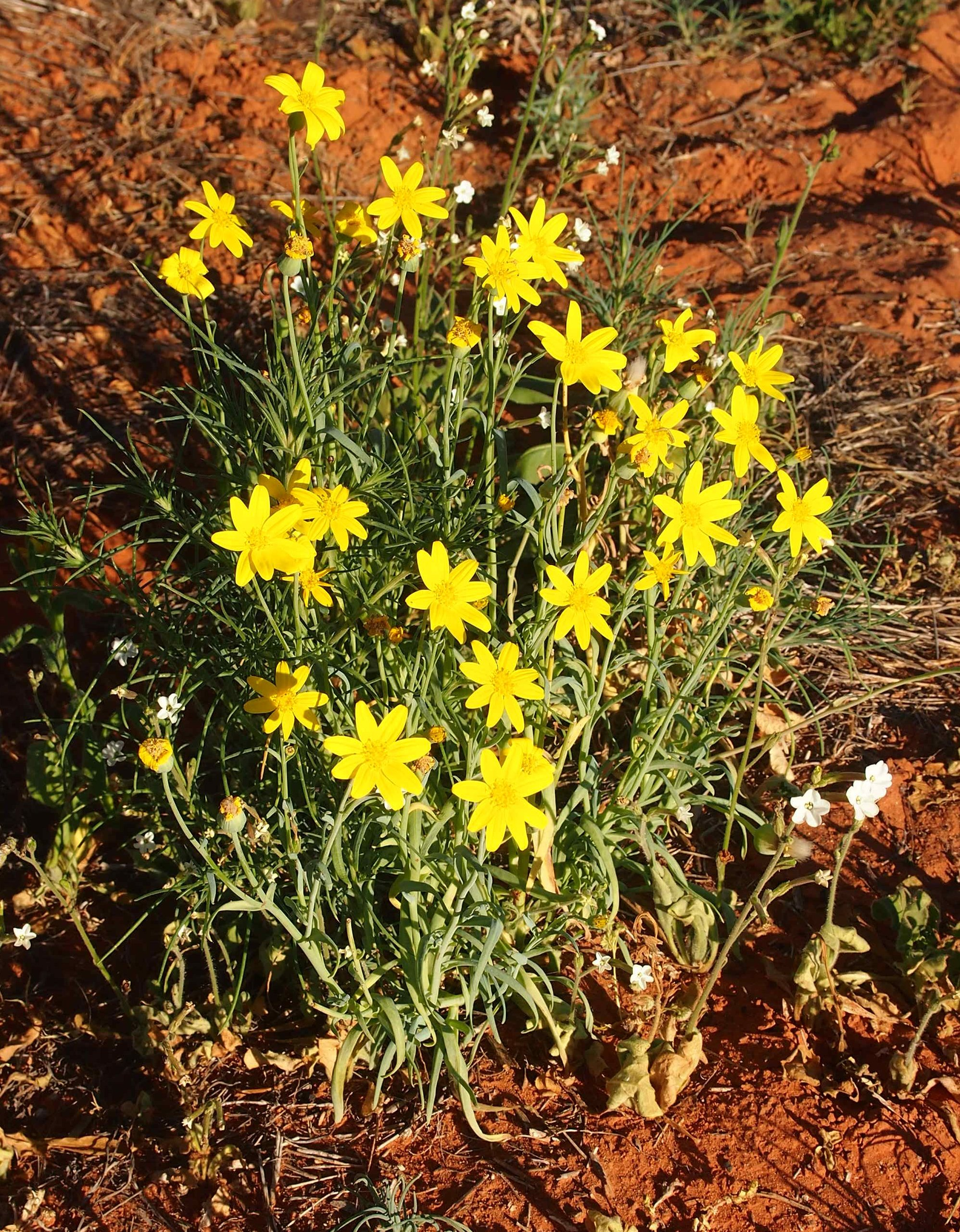 Senecio gregorii habit